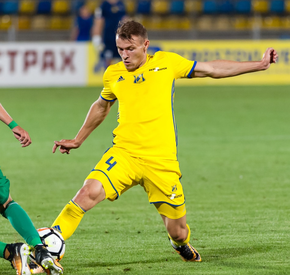 Sergey Parshivlyuk with FC Rostov in a game against FC Akhmat Grozny.